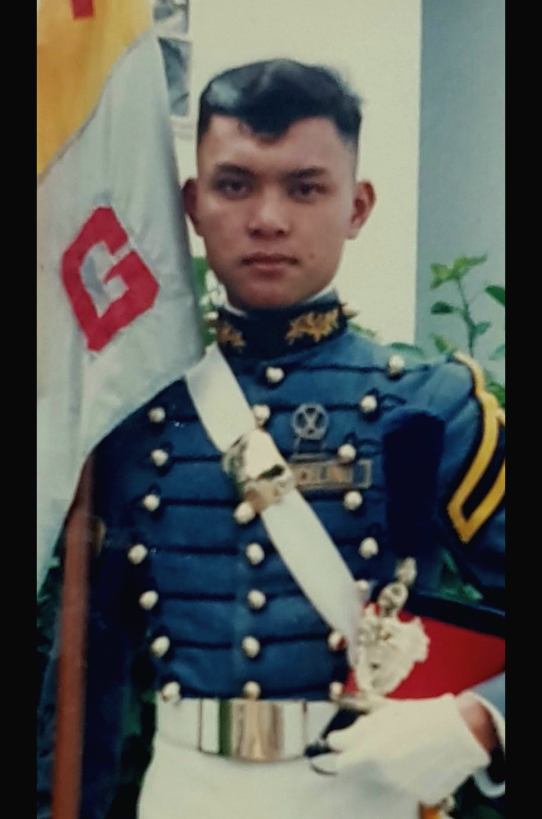 Colonel when he is still in PMA